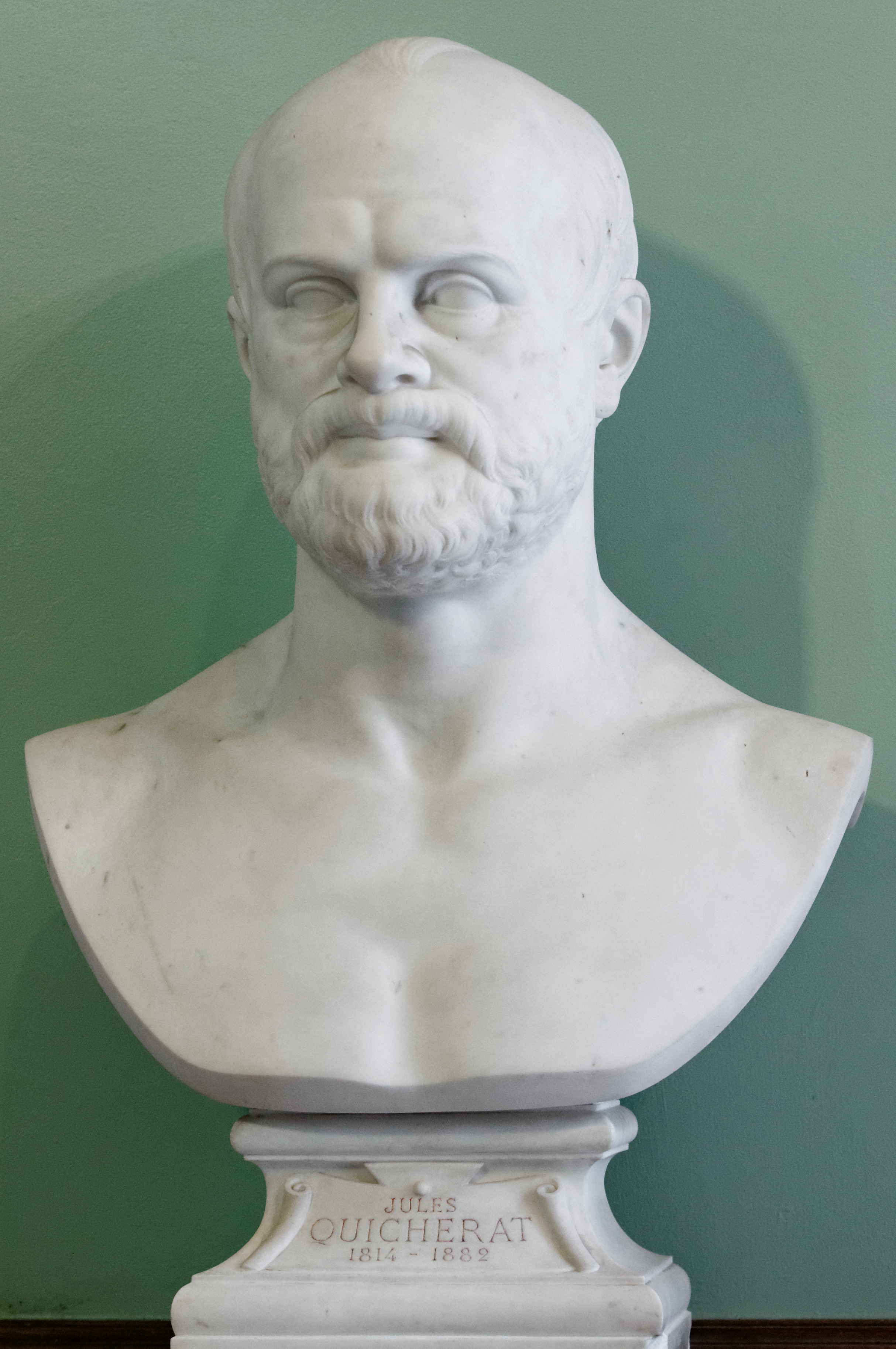 Bust of Jules Quicherat by Jean Petit (1819–1903), 1885.